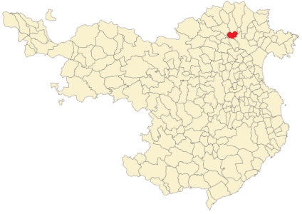 Masarac